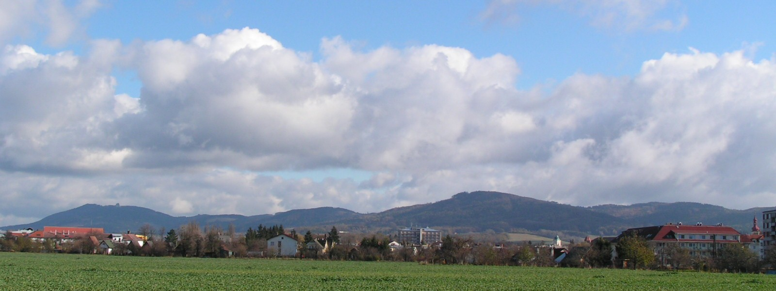 The westernmost part of Hostýnské vrchy as seen from Holešov.